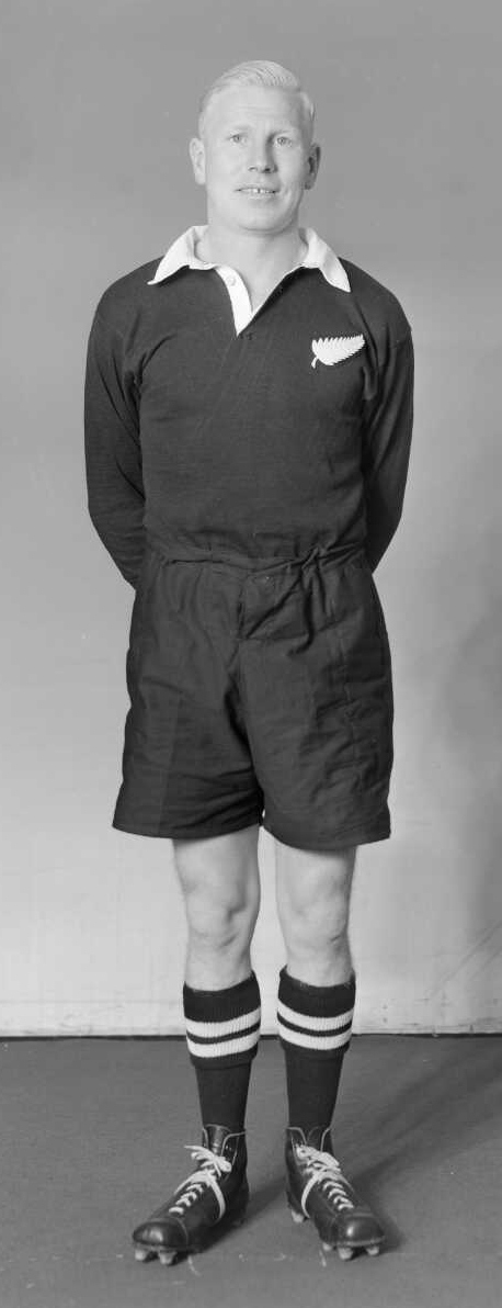 J C Kearney, member of the All Blacks, New Zealand representative rugby union team